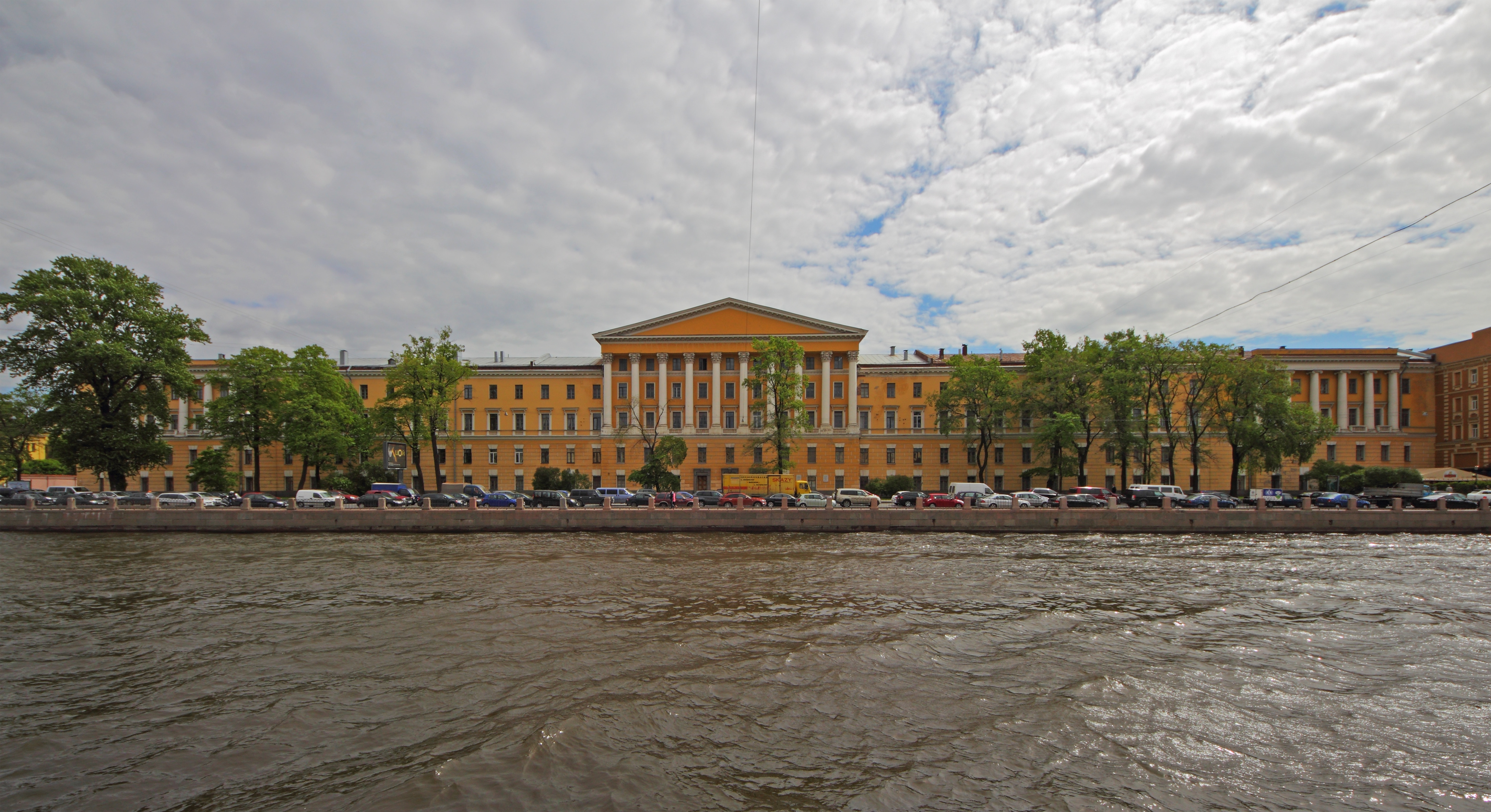 Saint Petersburg, Russia. Obukhov Hospital at Fontanka.